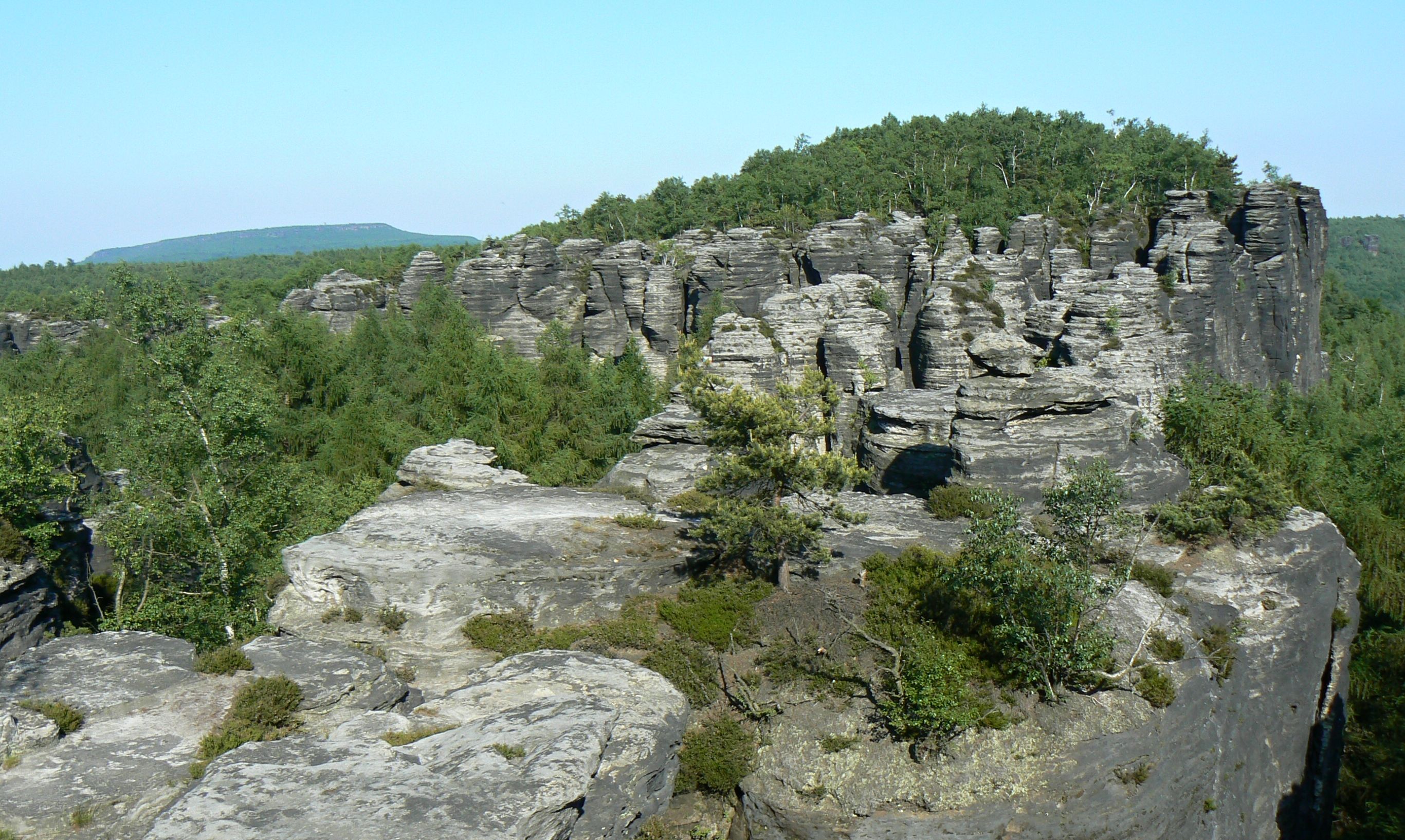 Rock city and natural monument Tiské stěny (in landscape park Labské pískovce) near Tisá in Ústí nad Labem District